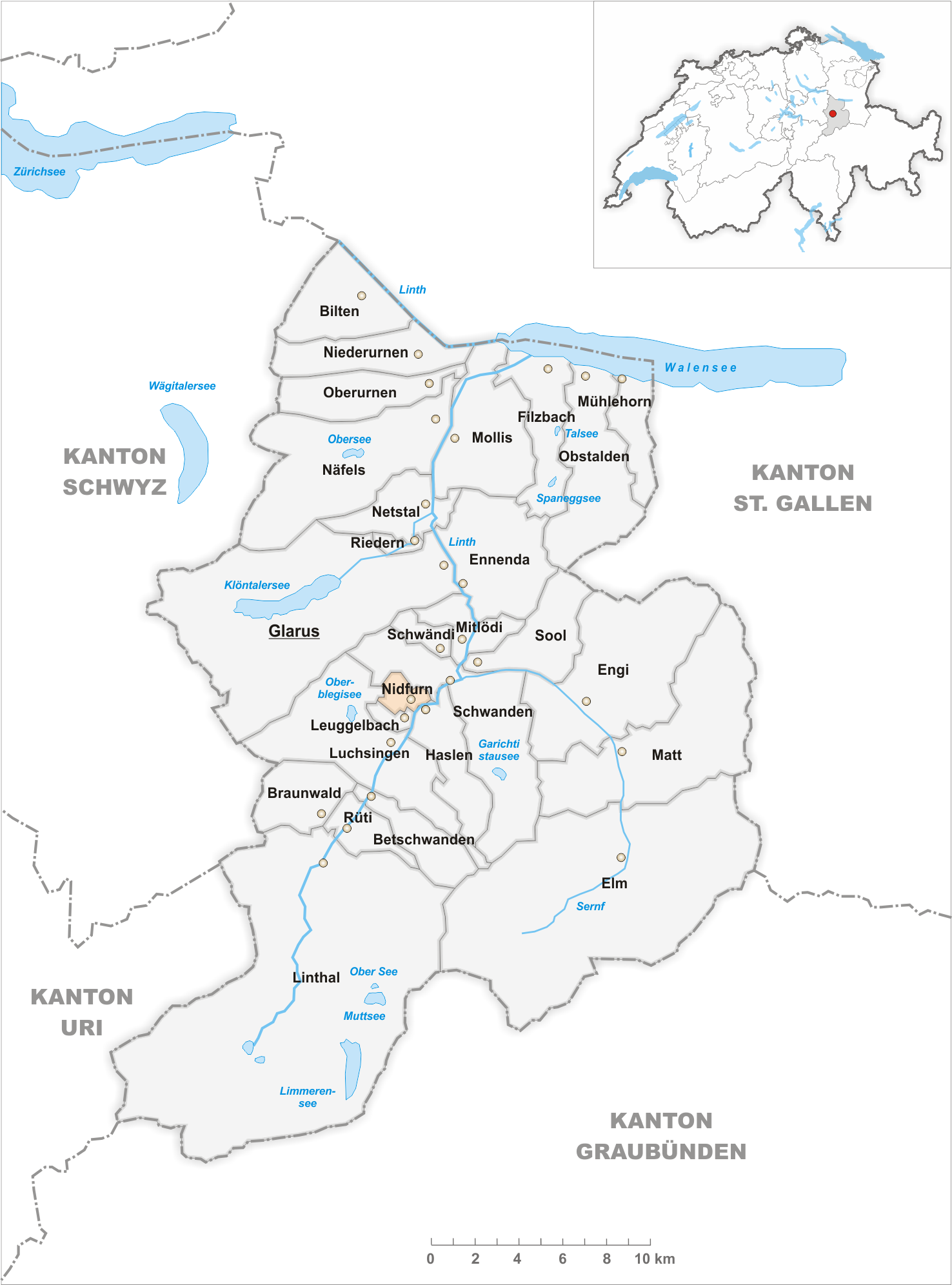 Municipality Nidfurn Artist: Tschubby